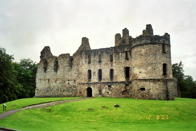 Balvenie Castle Balvenie Castle is abandoned since the early 18th century. It was the ancient seat of the Comyn family, later a property of the Black Douglasses. The ruin is absolutely worth a visit!